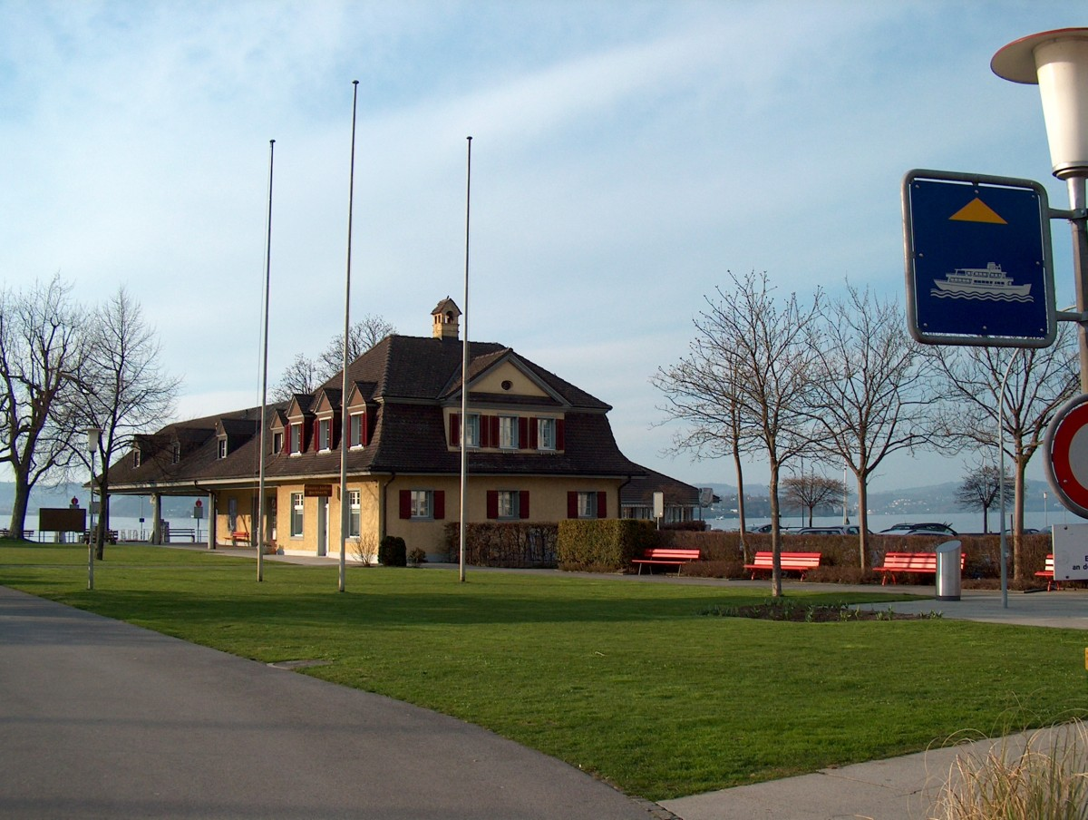 Ship landing place at Lake Lucerne in Stansstad, Switzerland. Until 1964 the building served as railway station of Stansstad—Engelberg-Bahn, tracks were at left.